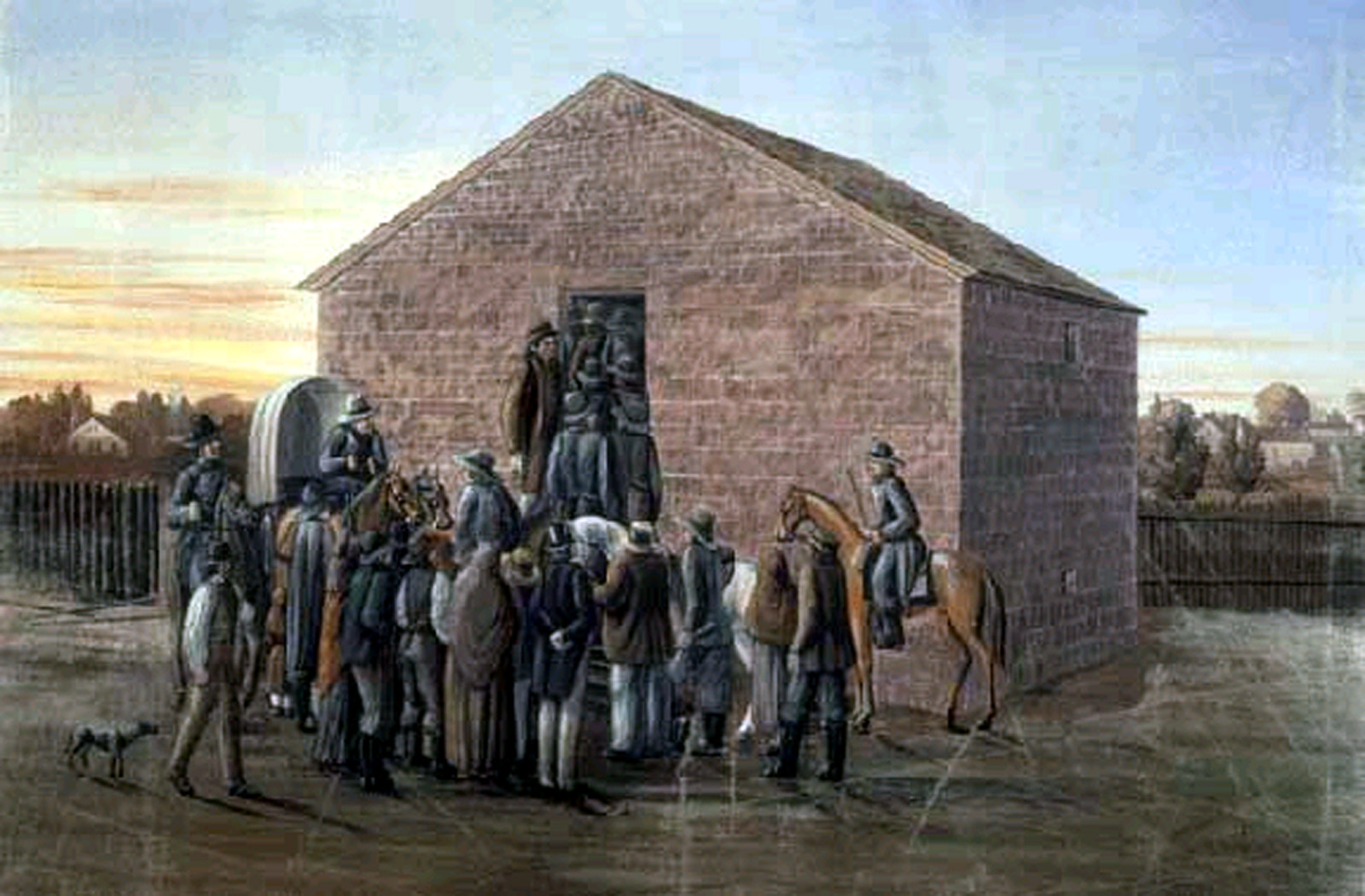 "Liberty Jail" by C.C.A. Christensen.